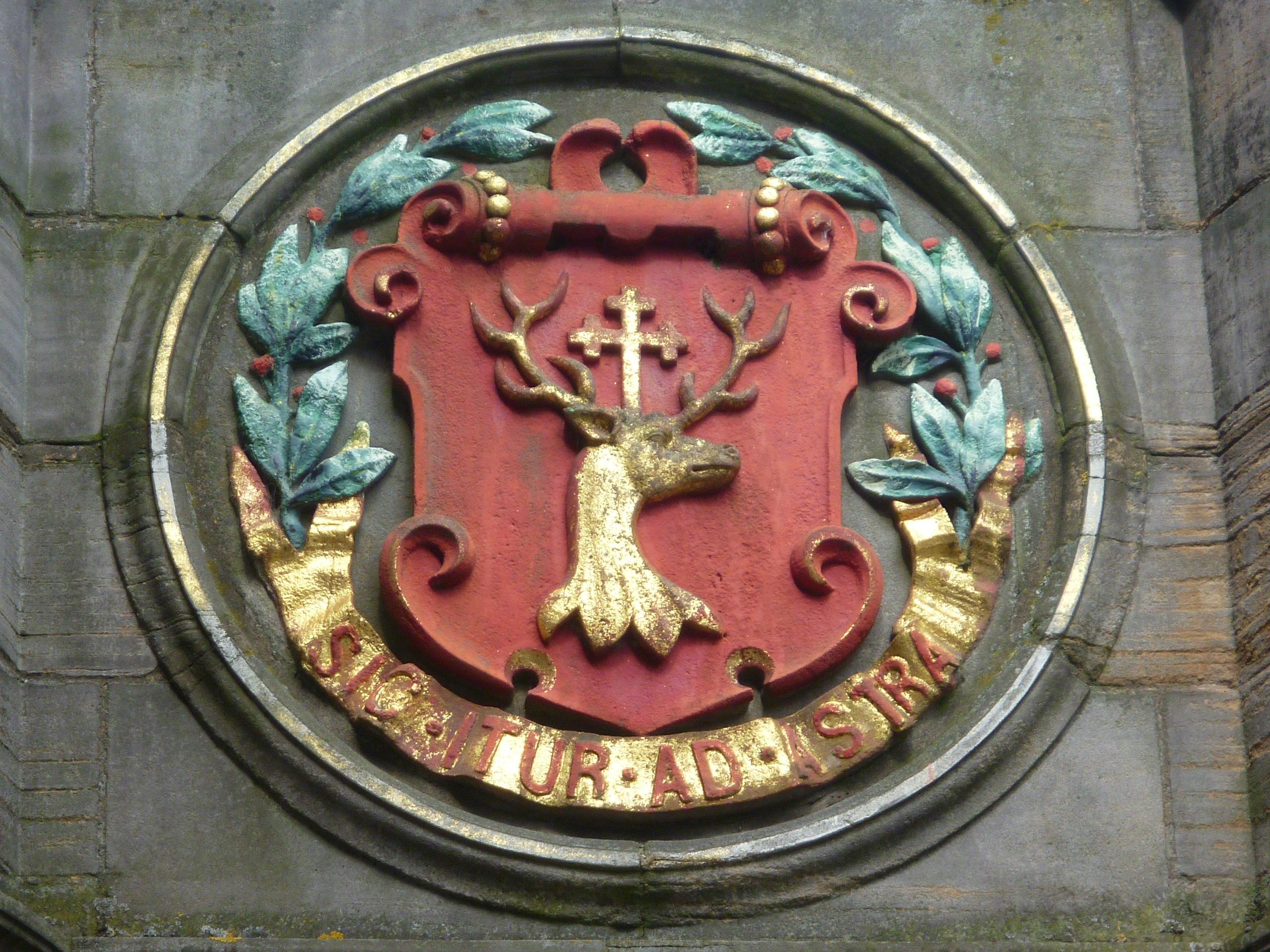 As seen on the mercat cross of Edinburgh. They depict the stag and cross from the story of Scotland's 12th-century king, David I. While hunting in the forest of Drumselch, he was thrown from his horse and about to be gored by a stag when he had a miraculous vision of a cross appearing between its antlers. The stag withdrew, thus confirming the King's belief that his life had been spared through divine intervention. Tradition has it that he founded Holyrood Abbey on the spot where the vision occurred. The tale is strikingly similar to that of St. Hubertus and was likely spread by the abbey's Augustinian canons to the its founding.